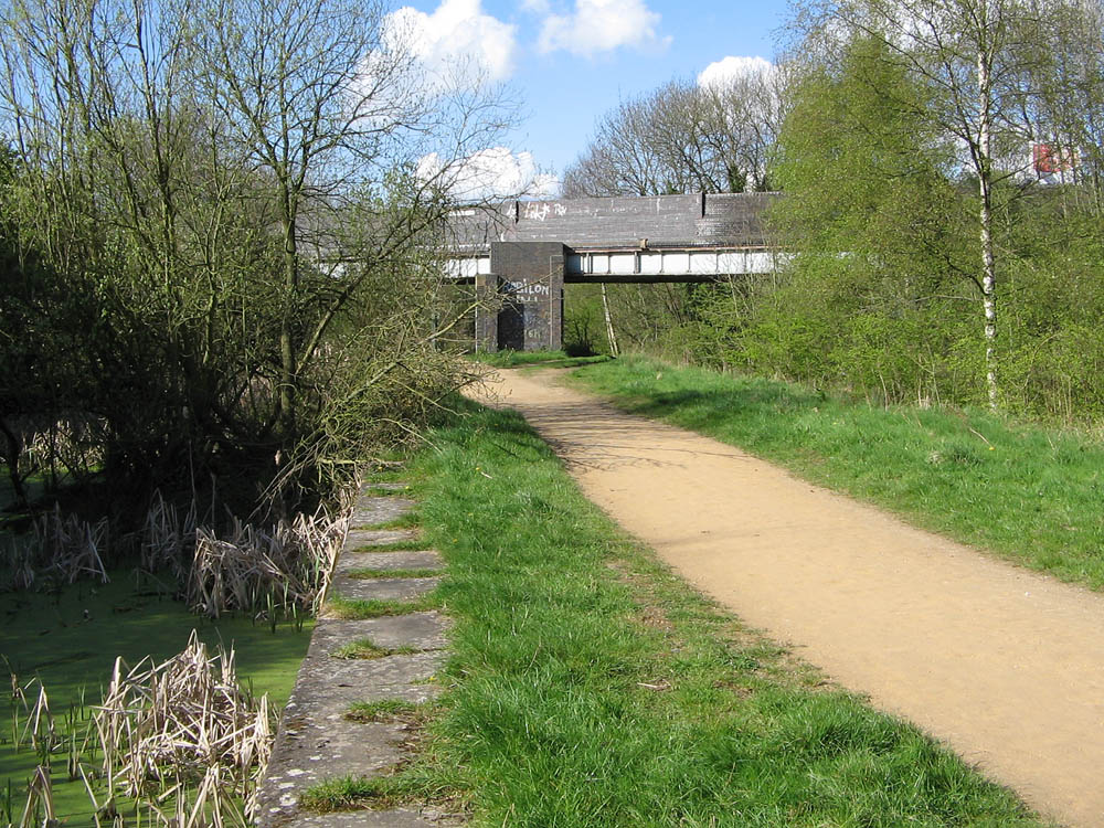 The remains of the former Rugby Central station - Rugby's former station on the former Great Central Main Line. The station had a single island platform, and the remains of the northbound platform edge can be seen in the foreground. Where the tracks were is now a pond and nature reserve. The booking office was built onto the side of the road bridge in the background (carrying Hillmorton Road), and stairs carried passengers down to the platform. The now demolished waiting room and toilet block stood in the centre of the platform. The route of the former GCR through Rugby is now a nature reserve and footpath known as the "Great Central Way". Photo by G-Man April 2005 See also Alternative view